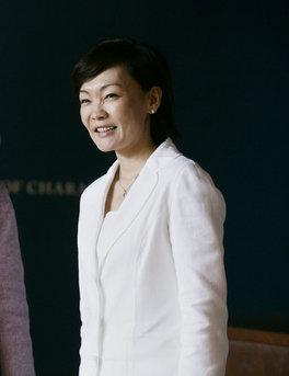 Laura Bush and Akie Abe, wife of Japanese Prime Minister Shinzo Abe, talk to members of the media follwing their visit to the Mount Vernon Estate of George Washington Thursday, April 26, 2007, in Mount Vernon, Va.